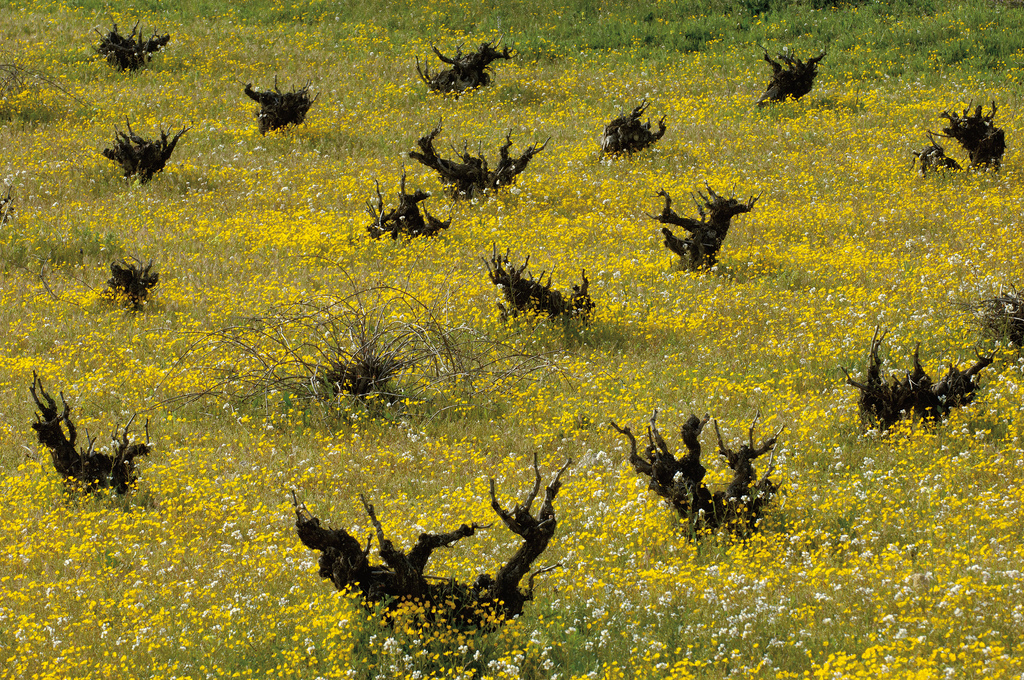 GrapeWine - Tielmes This photograph can be used for publications, including this copyright statement: “©PromoMadrid, author Max Alexander”. Esta fotografía puede usarse en publicaciones, incluyendo la declaración “©PromoMadrid, autor Max Alexander”.